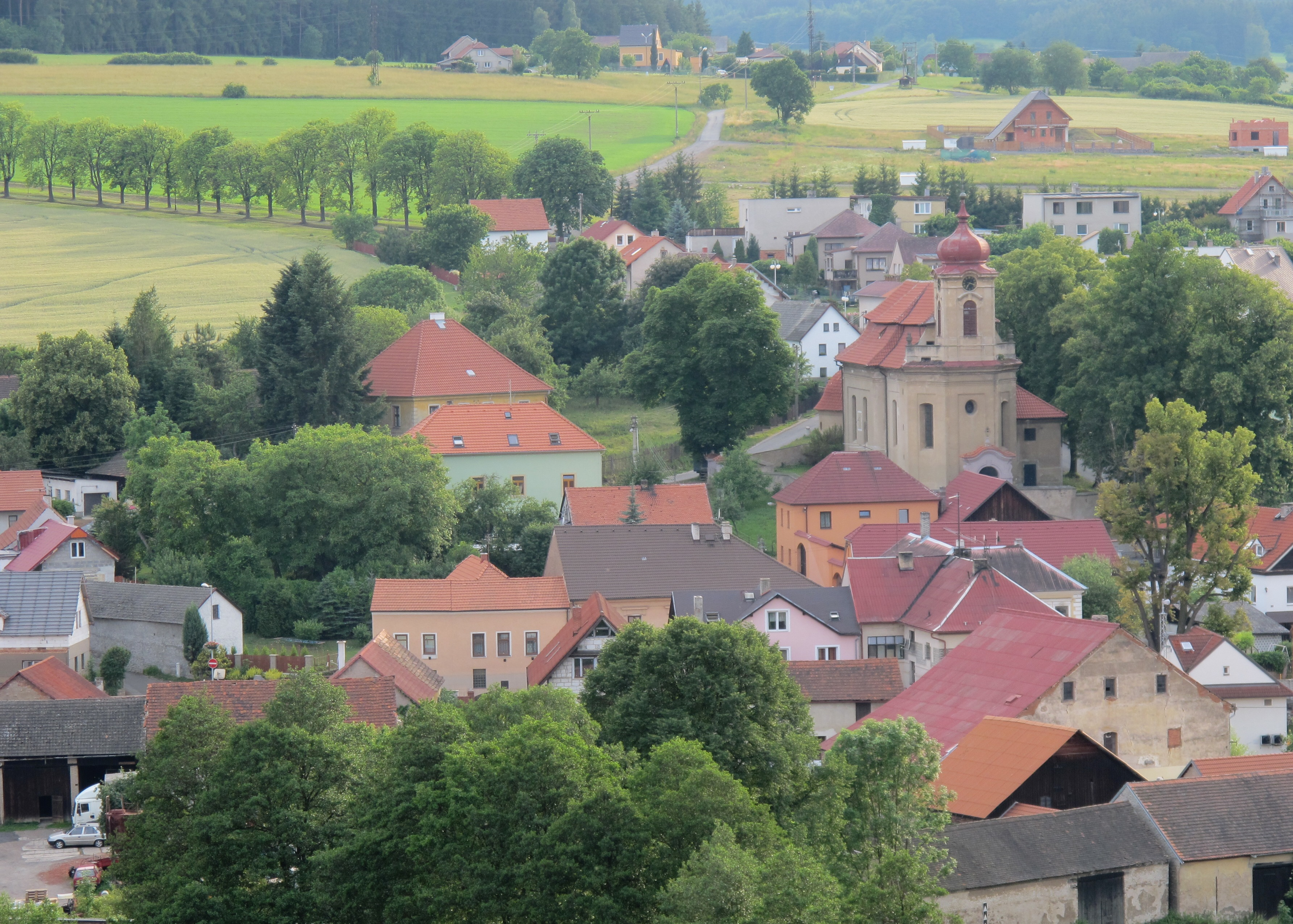 Jince from natural monument Vinice in Příbram District